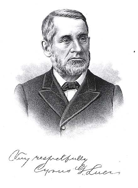 Cyrus Gray Luce (July 2, 1824 – March 18, 1905) was an American politician in the U.S. state of Michigan. He served as the 21st Governor of the US state of Michigan.